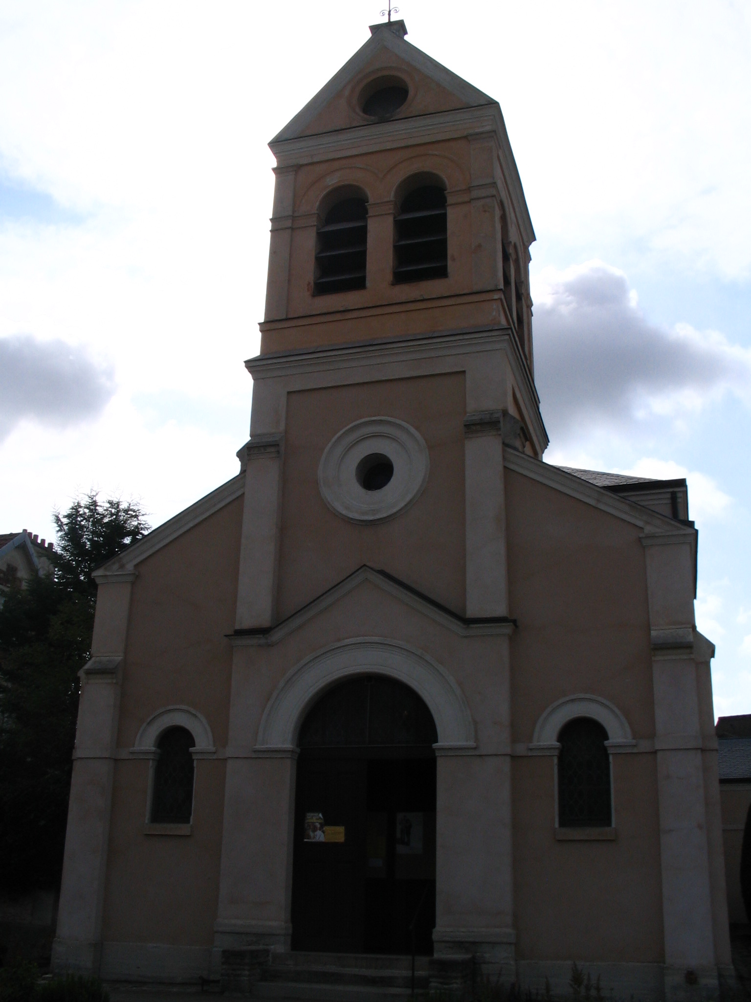 The Catholic church of Marnes-la-Coquette, Hauts-de-Seine, France.